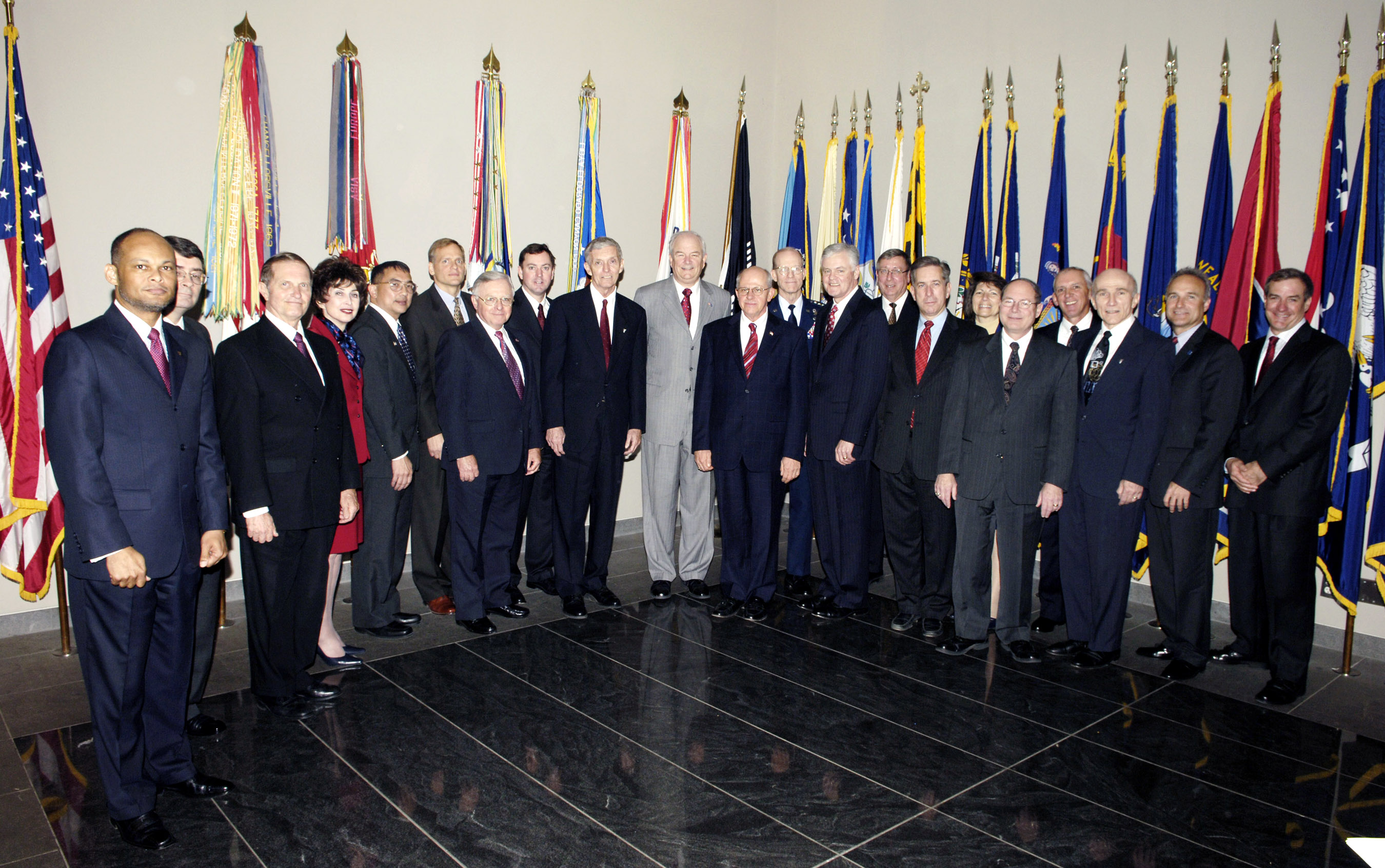 Secretary of the Air Force Michael Wynne, center, stands with the 2006 Presidential Rank Award recipients after a ceremony held April 20 at the Women's Memorial in Arlington National Cemetery in Washington D.C. (U.S. Air Force photo). Dr. Paul McManamon is 3rd from right